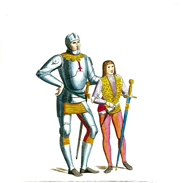 Illustration by Paul Mercuri from "Costumes Historiques" (Paris, ca.1850′s or 60’s). Scanned and archived at where it was marked as Public Domain.